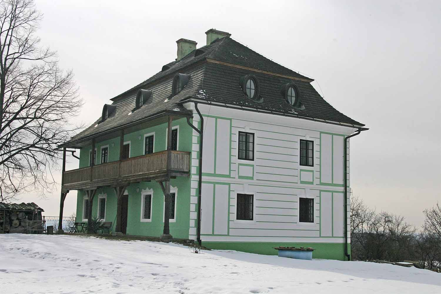 Baroque rectory in Vysoké Chvojno, Pardubice District, Czech Republic